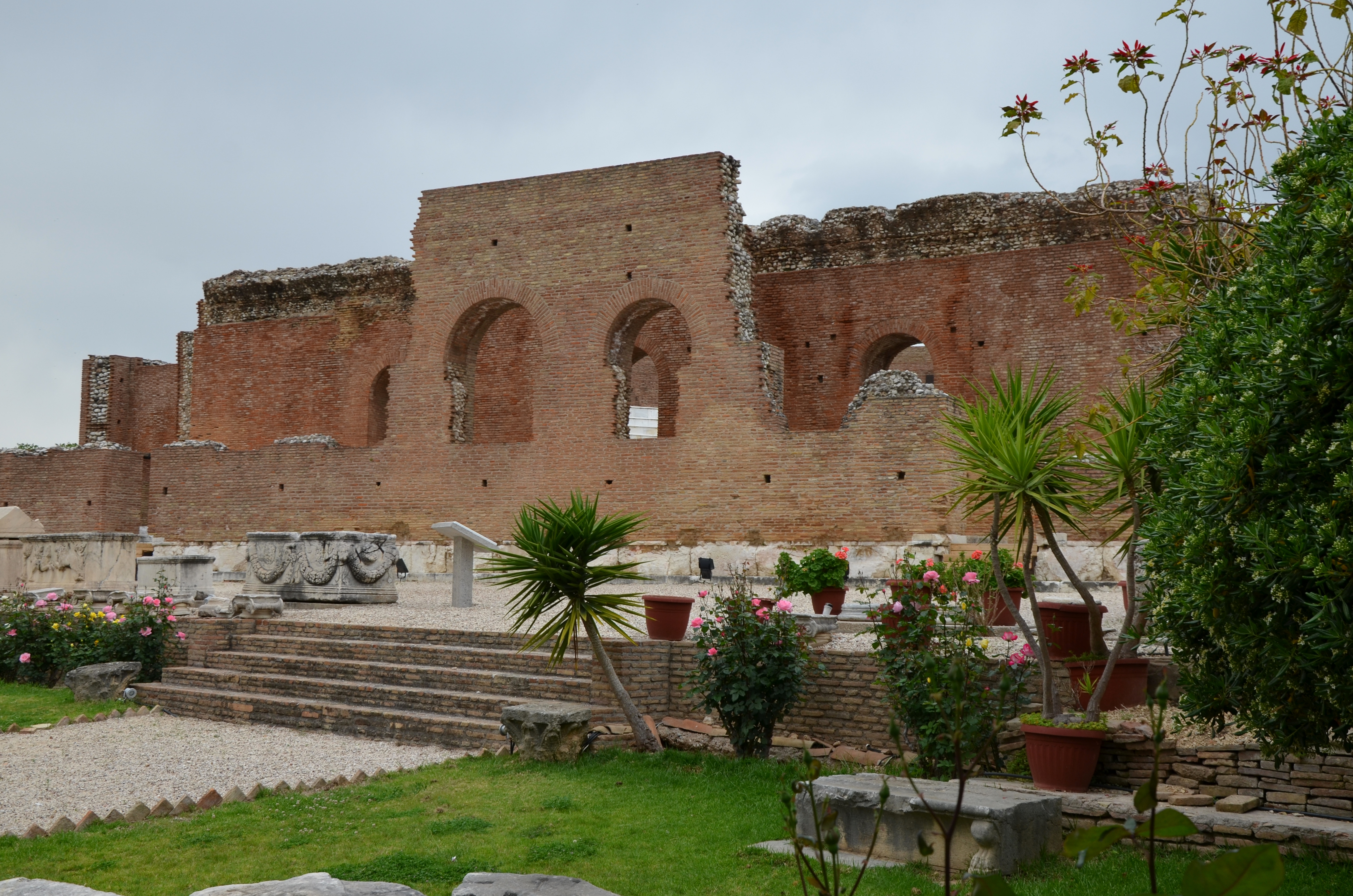 The Roman Odeon is located on the west side of Patra. It was built before the visit of Pausanias who rated it with the odeon of Herodes Atticus in Athens, as the most impressive of all the Odeons in Greece. It was rediscovered in 1889, and has been heavily restored since, including the new marble seating. The Odeon of Ancient Patrai was severely destroyed by successive invasions, wars and earthquakes. It was almost buried under the remains of other buildings and ground. The Odeon seats approximately 2300 spectators. After the establishment of the Patra International Festival held during the summer months, the Ancient Odeon constitutes the main venue, welcoming many top Greek and foreign performers.